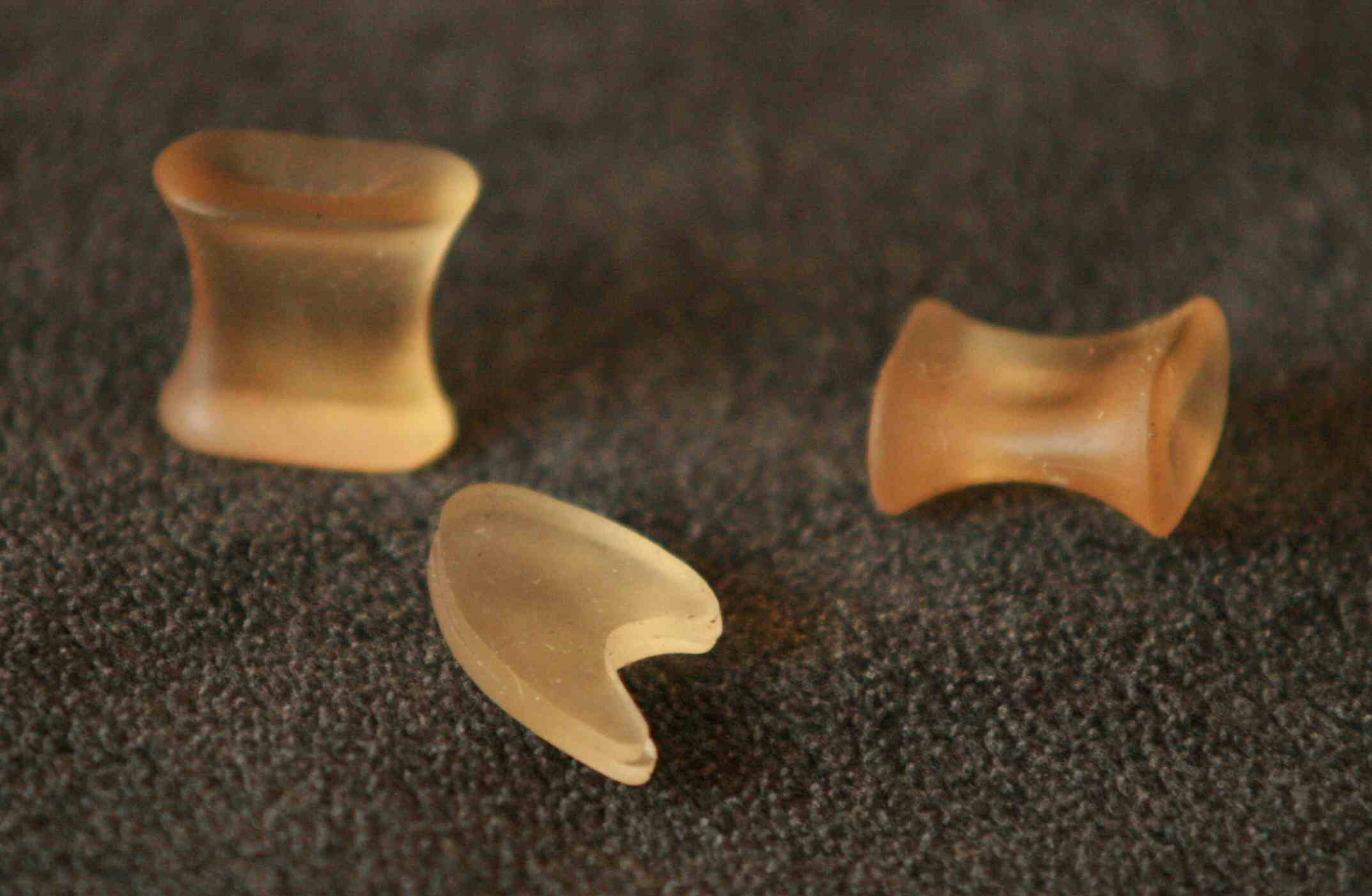 Toe spacers. These gel spacers are but a few of the available shapes and sizes available. They serve to space and align a dancer's toes while wearing pointe shoes.